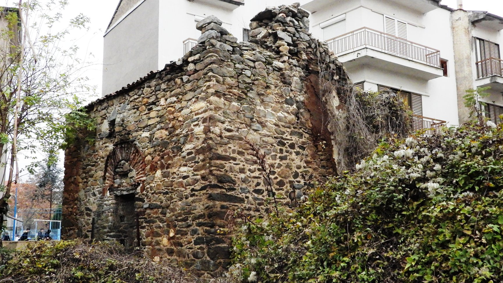 Florina Small Tower